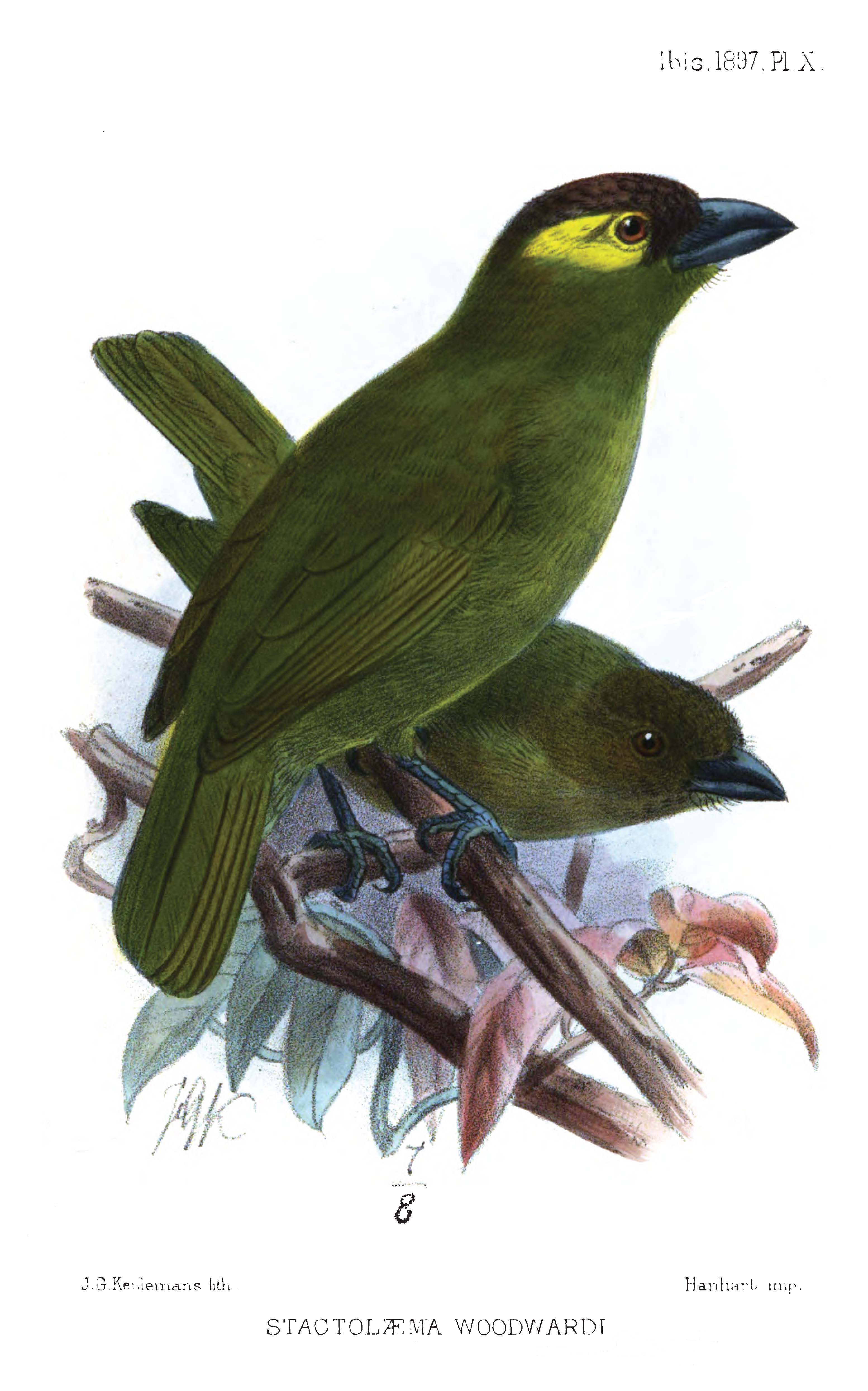 Illustration of a pair of Woodward's barbets (Stactolaema Woodwardi).